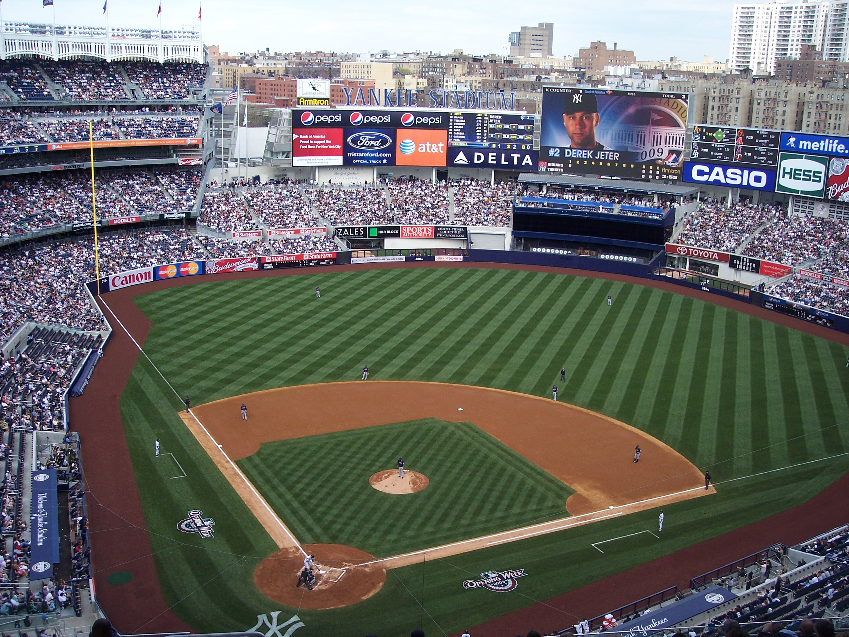 Photo by The Silent Wind of Doom 18 Apr 2009 (UTC)